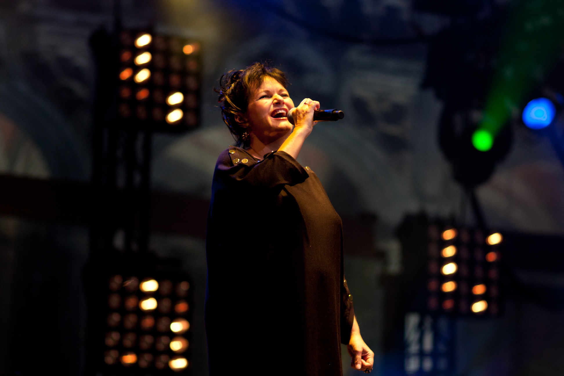 Follow me on facebook Twitter : @didyPhotography All the photographies I've made are now under CC0 (Creative Commons Zero) CC0 - learn more To the extent possible under law, Eddy BERTHIER has waived all copyright and related or neighboring rights to Maurane @ Fête de la Fédération Wallonie-Bruxelles. This work is published from: France.